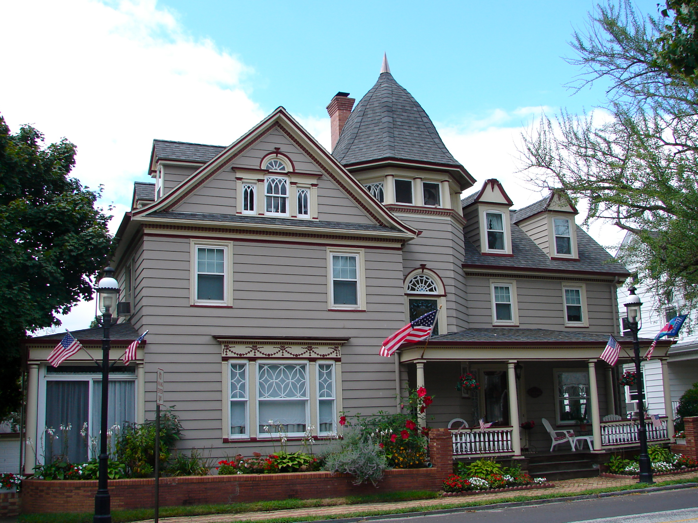 David V. Smith House in southern New Jersey on the NRHP since May 17, 1976. At 104 S. Main St., Elmer, NJ